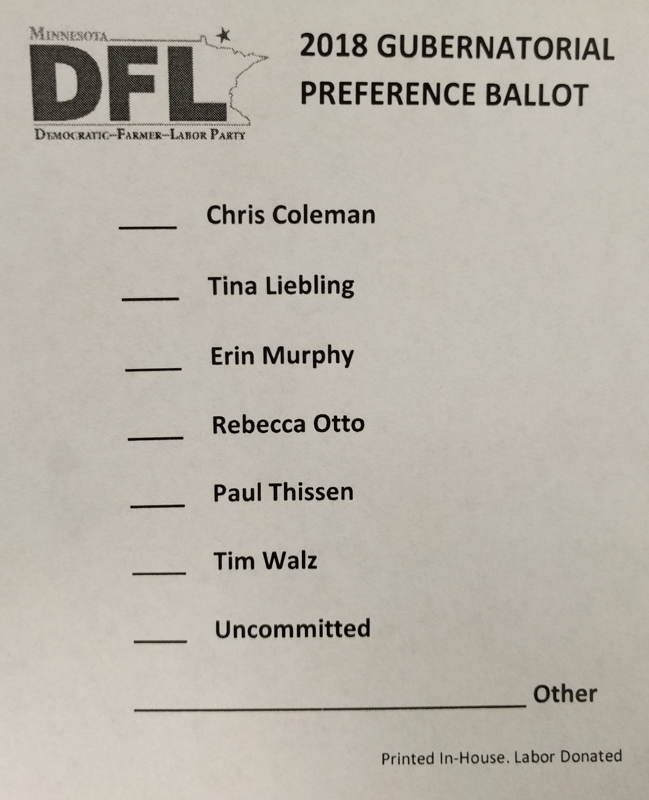 Roseville High School, Roseville, Minnesota